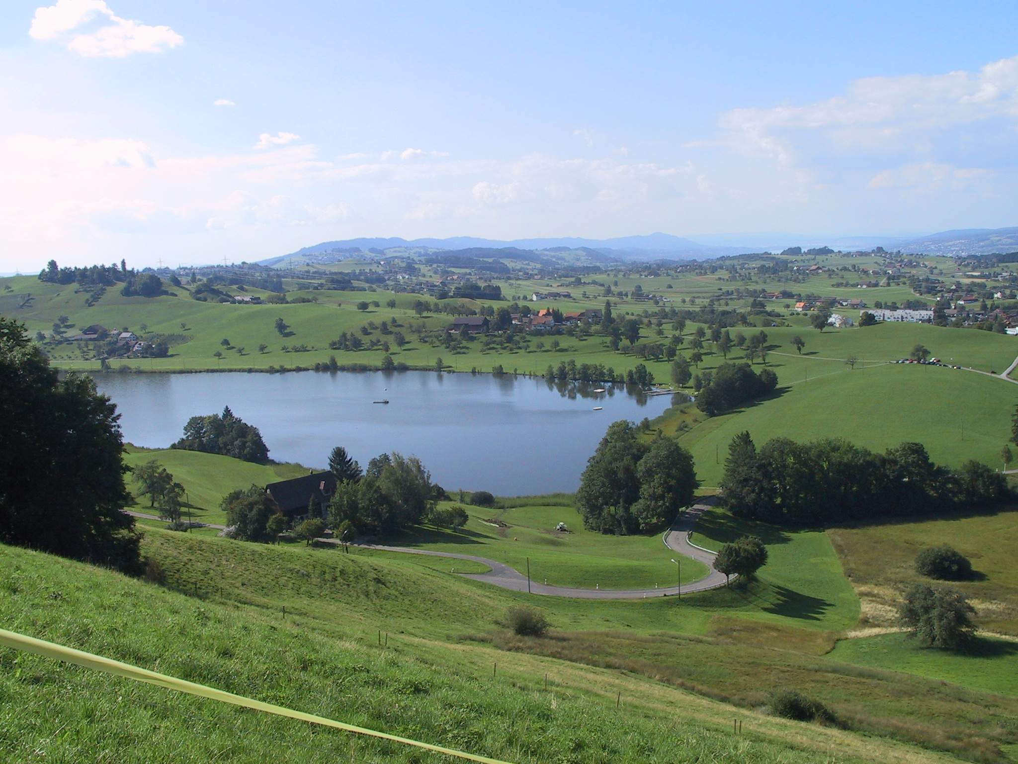 Zimmerberg platau : Hüttnersee to the left, Hütten (ZH), Lake Zürich to the right, Samstagern, Pfannenstiel mountain (to the right), Albis hills in the background etc.